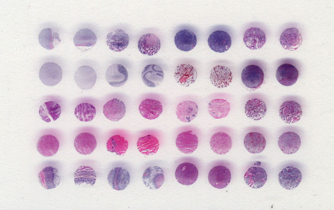 Frozen Tissue Array Section